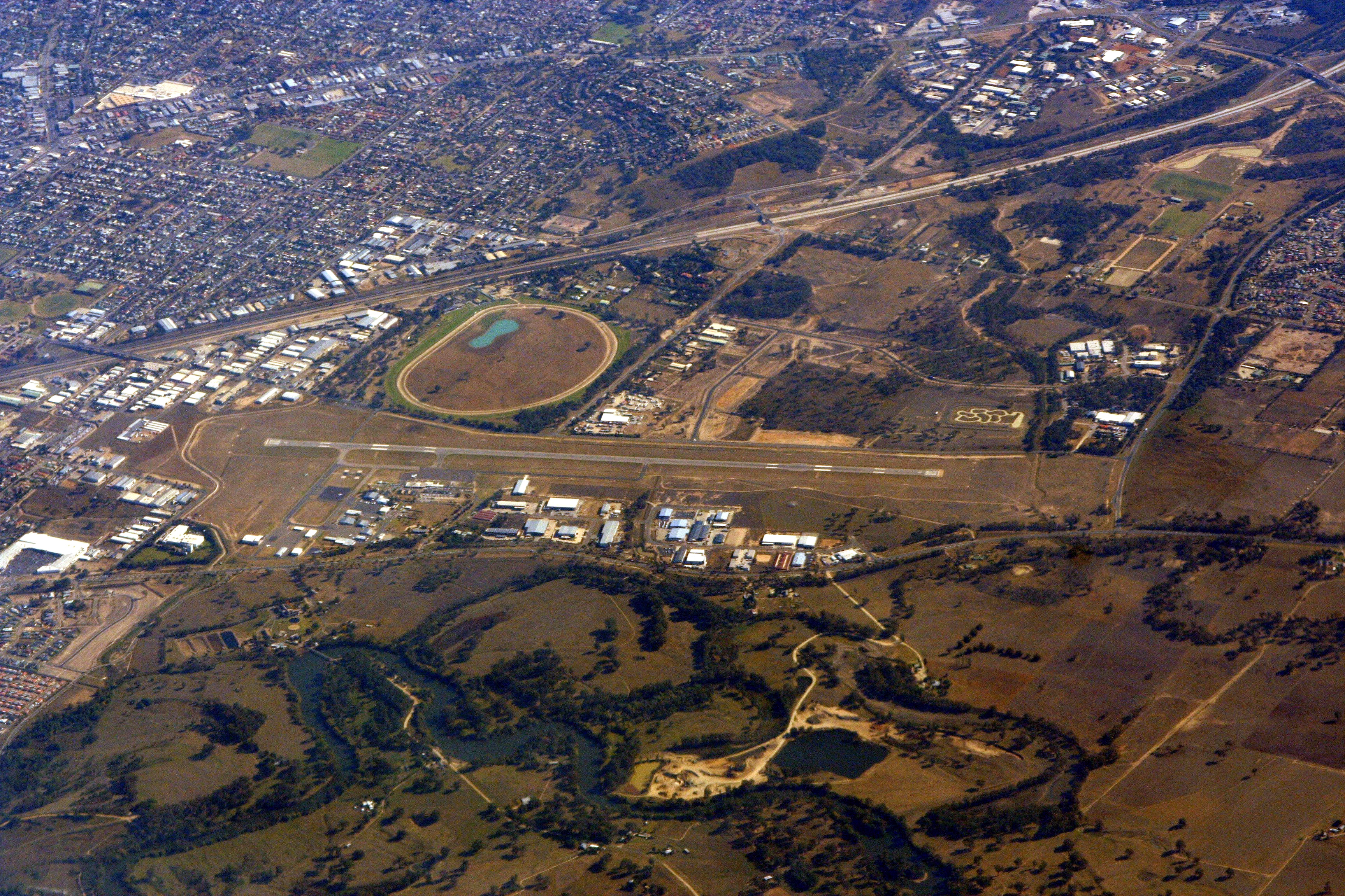 Albury Airport New South Wales, Australia - from overhead